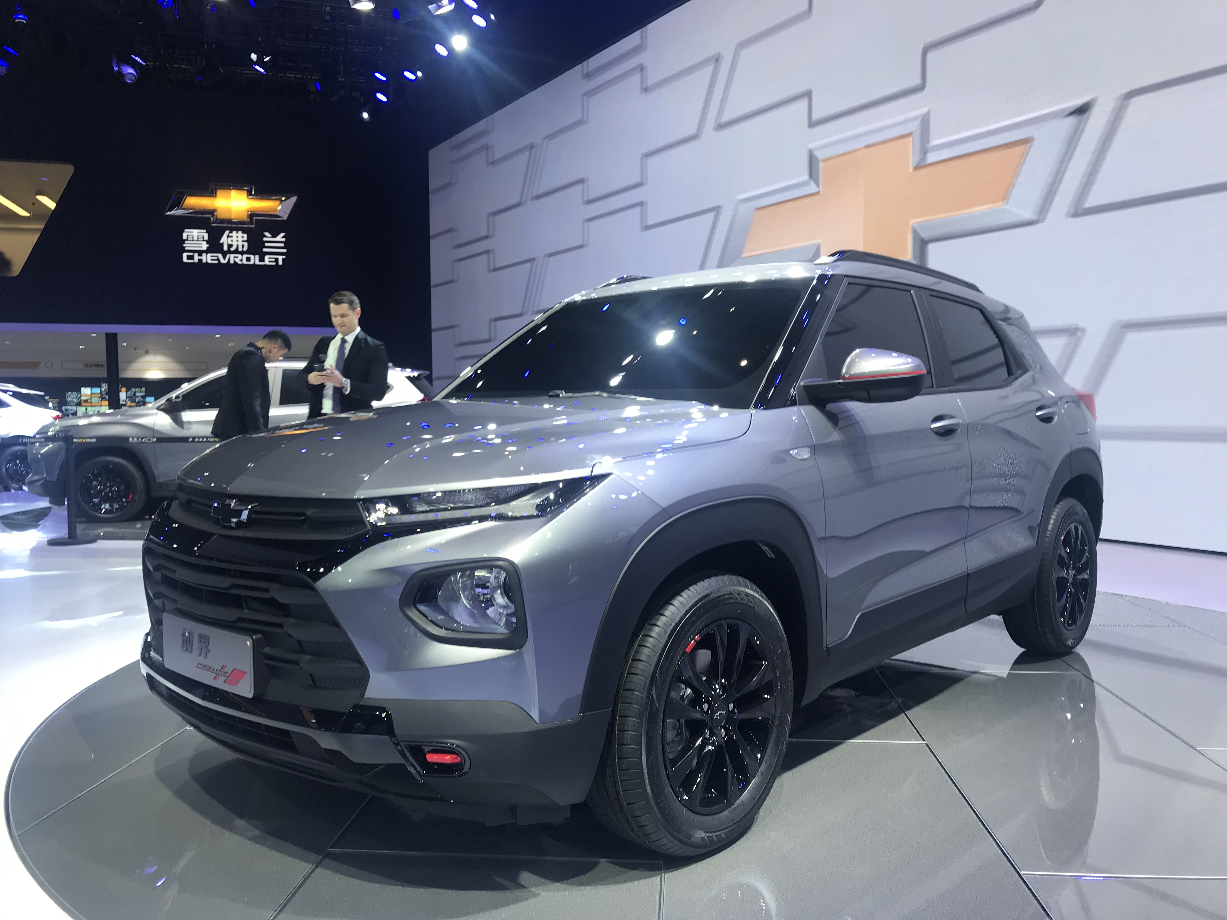 Chevrolet TrailBlazer front